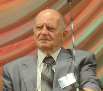 академик Евгений Аврорин